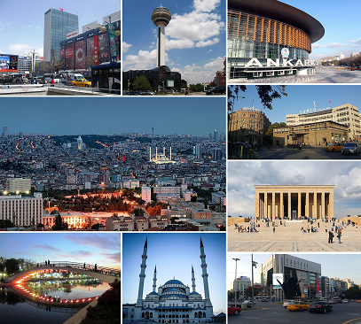 Ankara collage